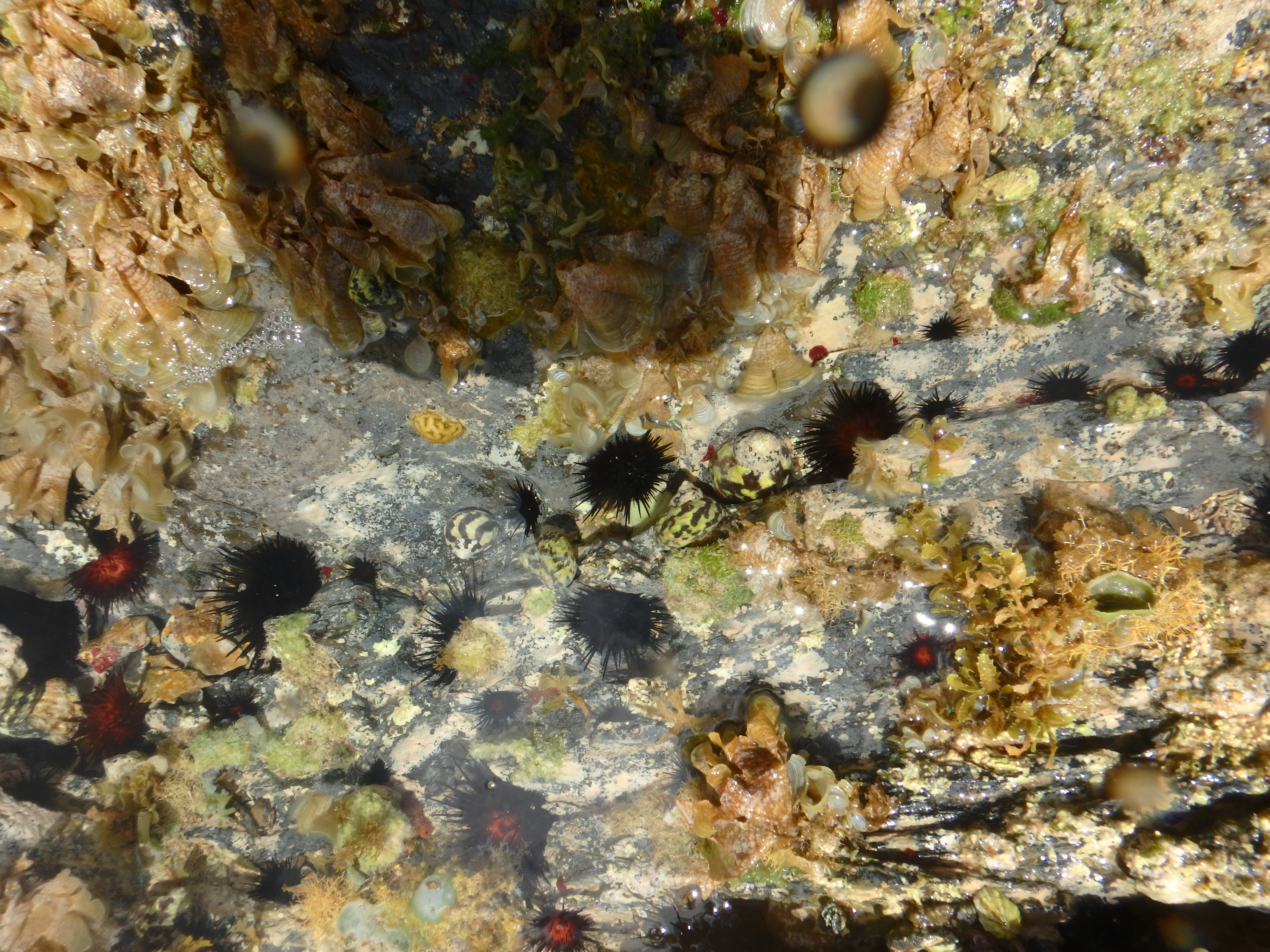 Several zebra-striped Cittarium pica specimens can be seen in this crevice along with sea urchins.